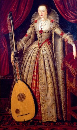 Portrait of Lady Mary Wroth (1587–1651/3), English poet, holding a theorbo.